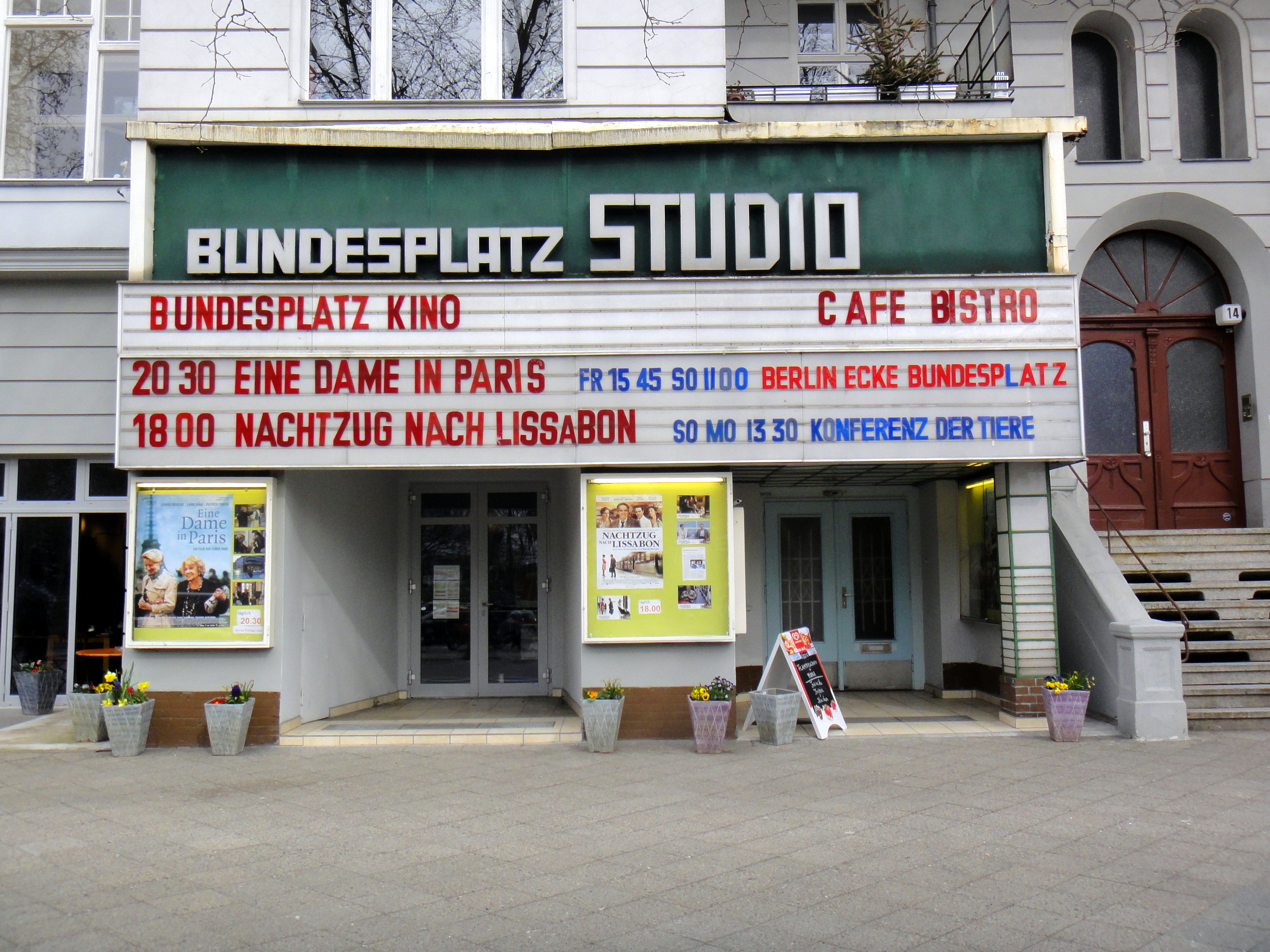 Movie theatre "Bundesplatz Studio" playing "Berlin - Ecke Bundesplatz" on the Bundesplatz, Berlin-Wilmersdorf